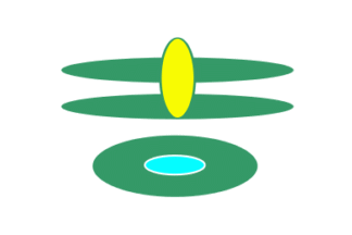 Flag of Yoshika Shimane